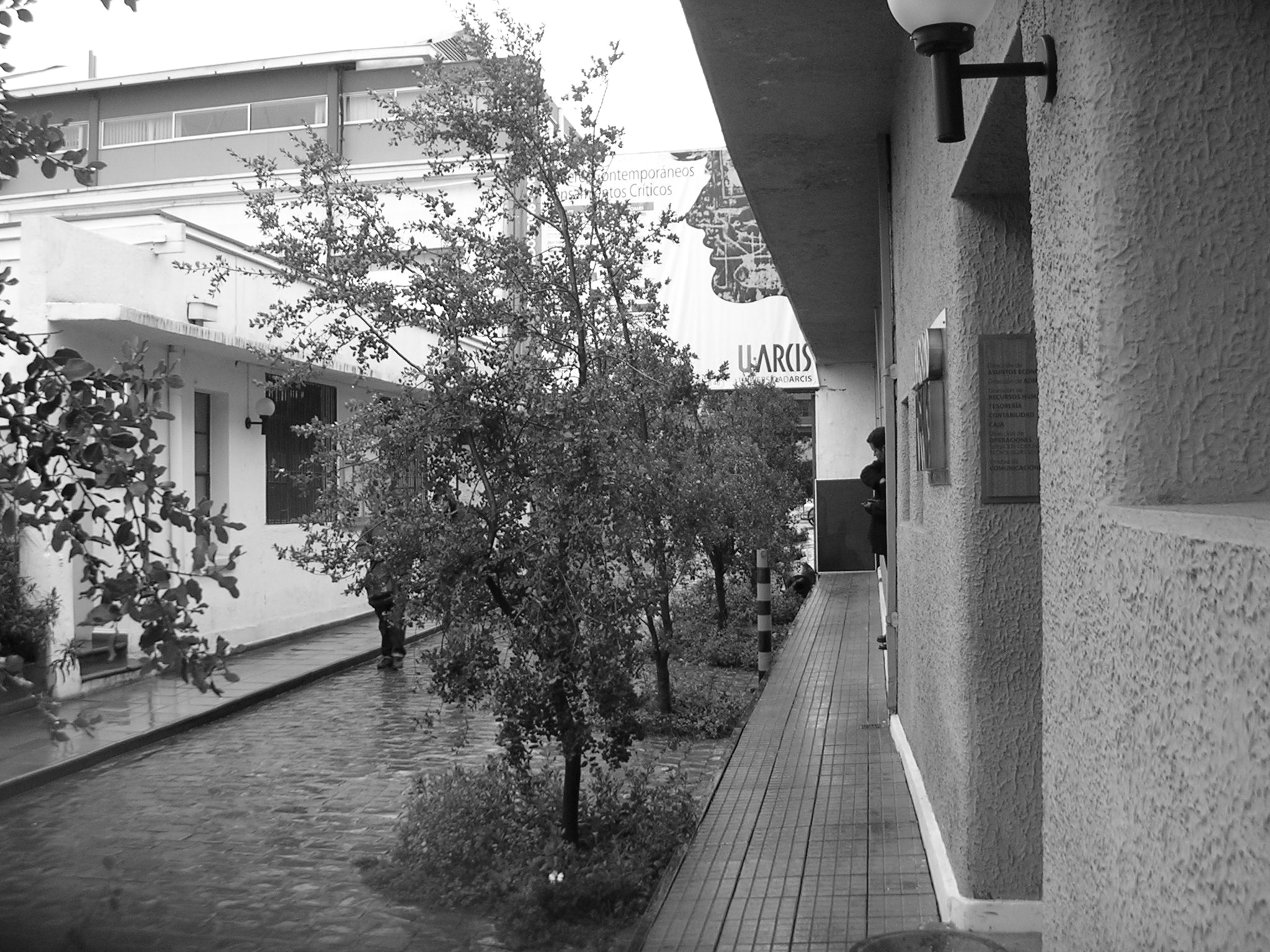 The University of Art and Social Sciences or simply University Arcis (U-ARCIS), Santiago, Chile